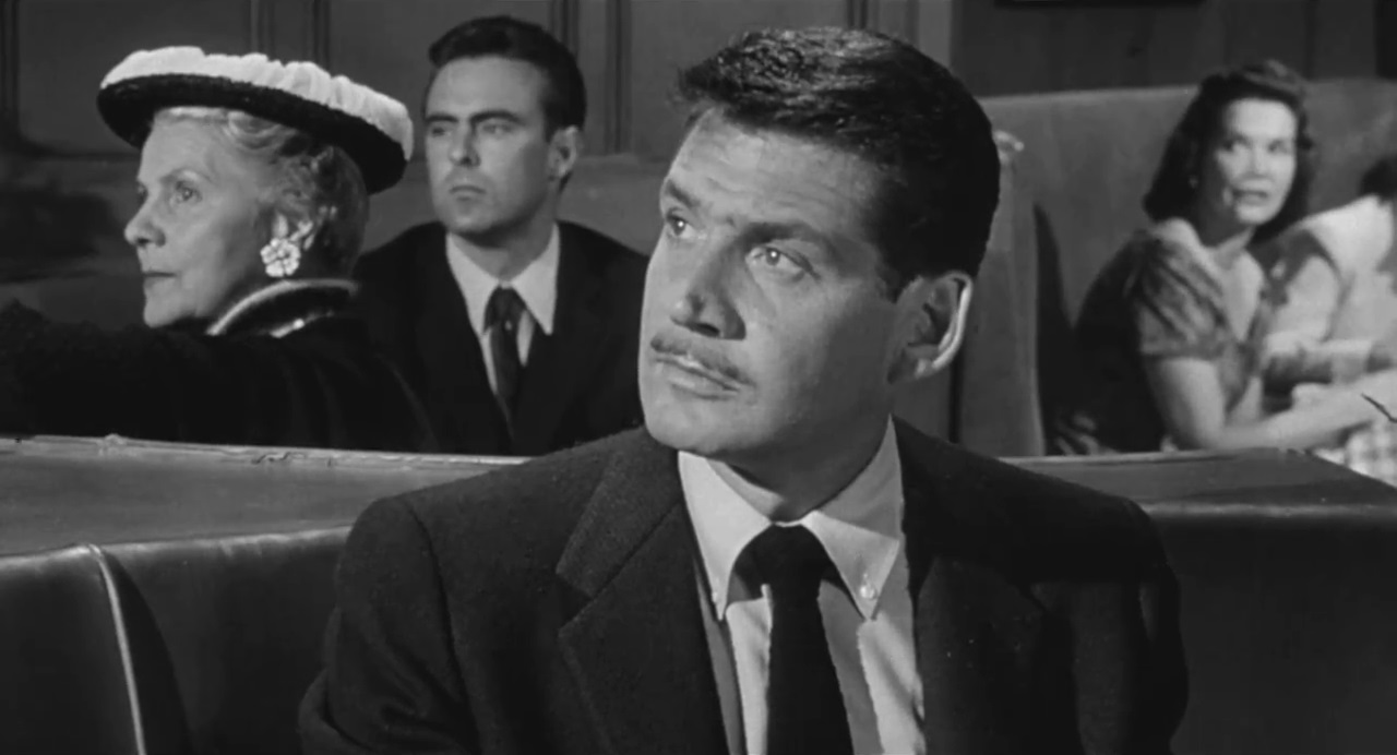 Gene Barry in The 27th Day - trailer (cropped screenshot)